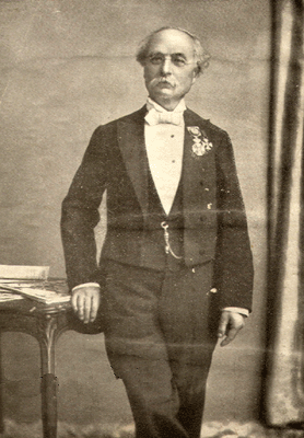 Photo of Frans De Potter (ca. 1900), a Belgian writer. Permission granted to use the image from the AMVC archive by the AMVC-Letterenhuis, Minderbroedersstraat 22, 2000 Antwerpen, Belgium.